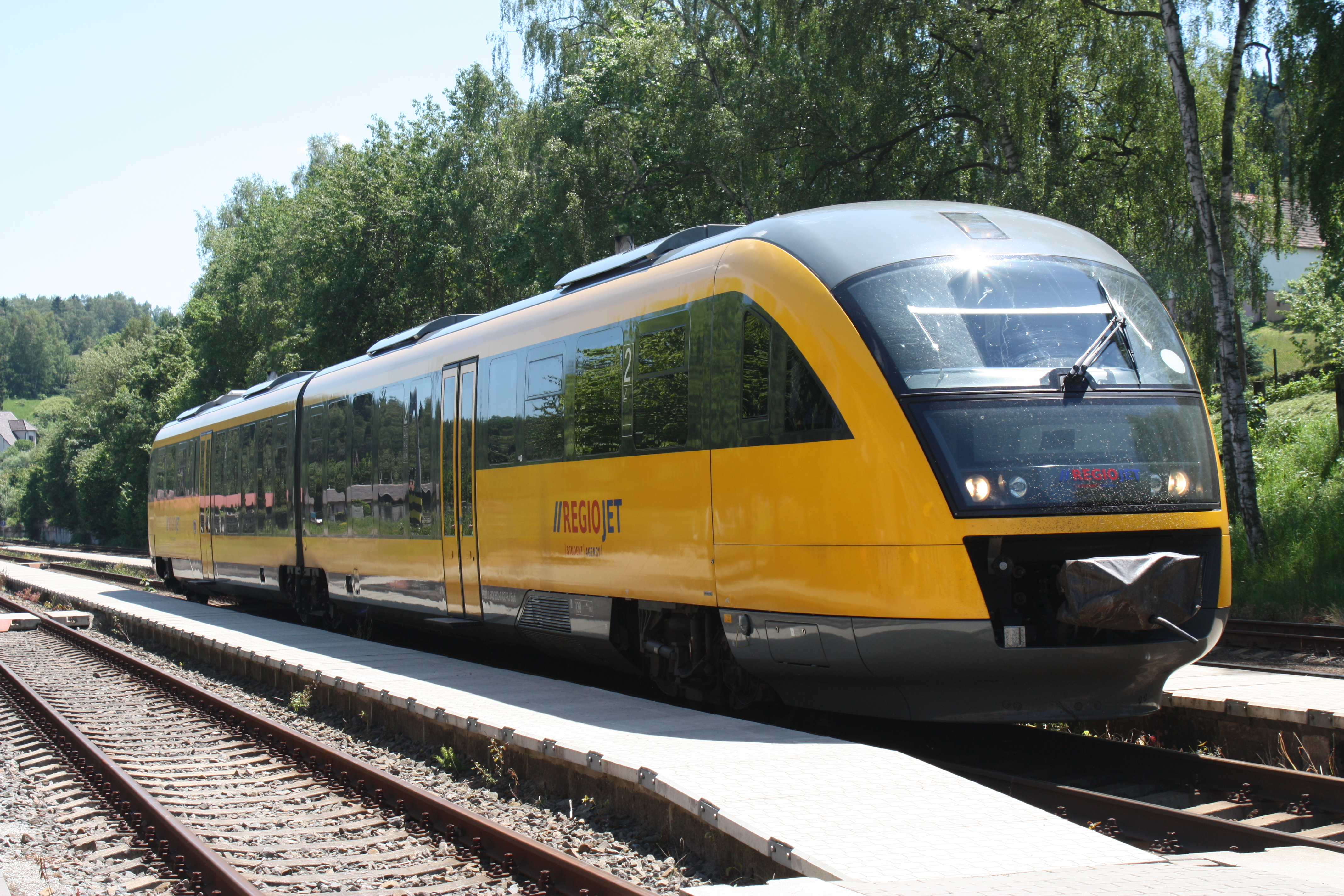 RegioJet's Siemens Desiro Classic train